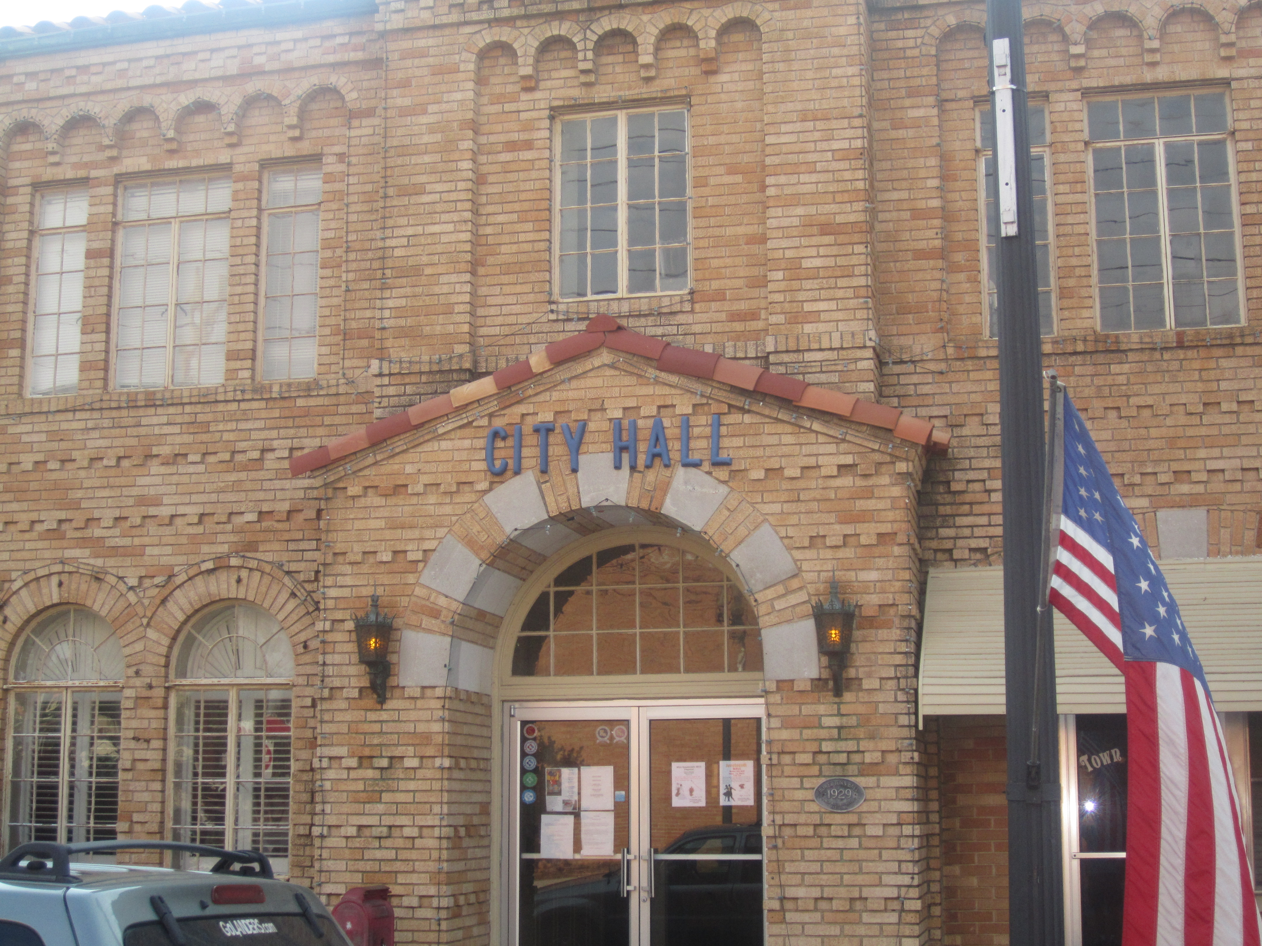 I took photo with Canon camera in Homer, LA.